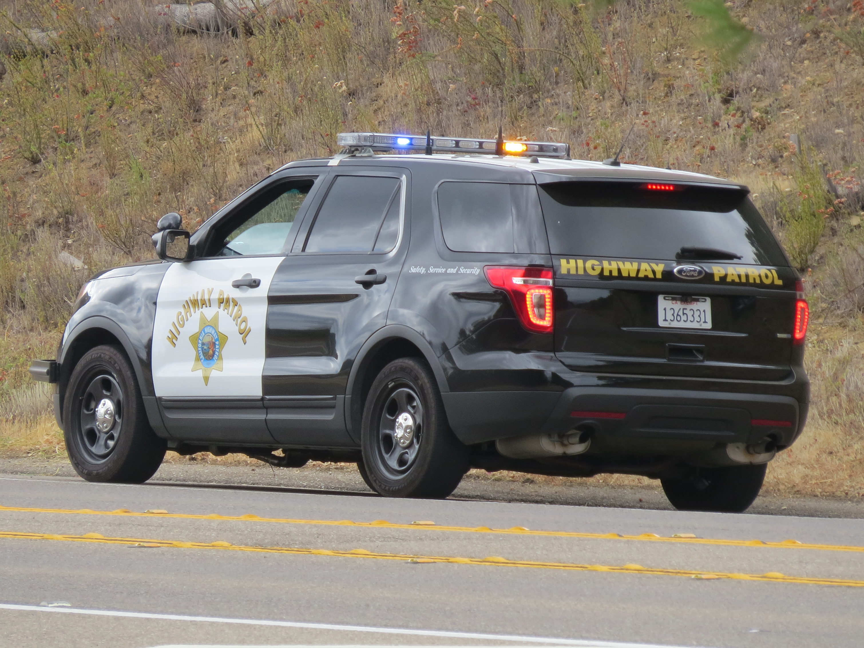 California Highway Patrol